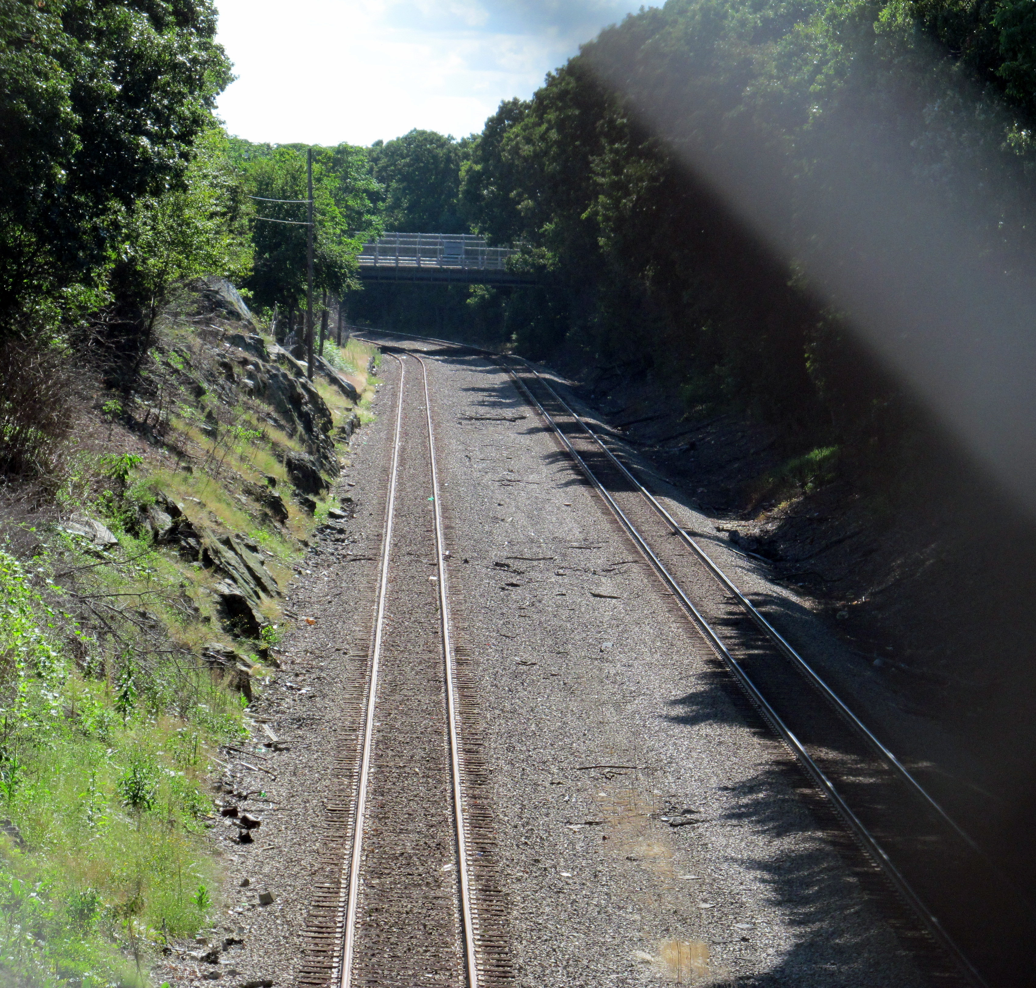 Site of the future Blue Hill Avenue station on the Fairmount Line which will be located between the two tracks. This view looks from Blue Hill Avenue outbound towards Cummins Highway.